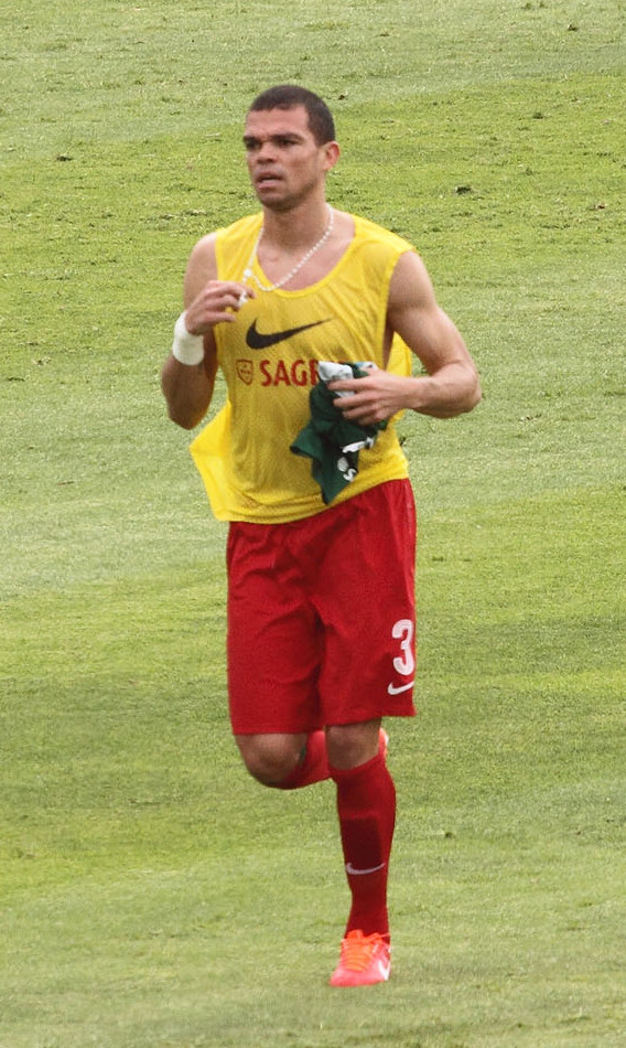 Pepe during 2014 World Cup qualifiers game between Israel and Portugal.